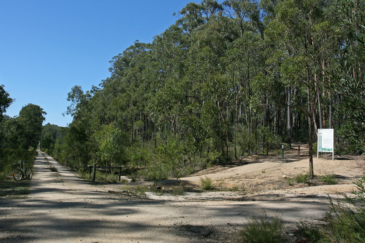 Looking south-east at the junction of the East Gippsland Rail Trail and Gippsland Lakes Discovery Trail near Seaton Track, Colquhoun State Forest, Victoria, Australia.